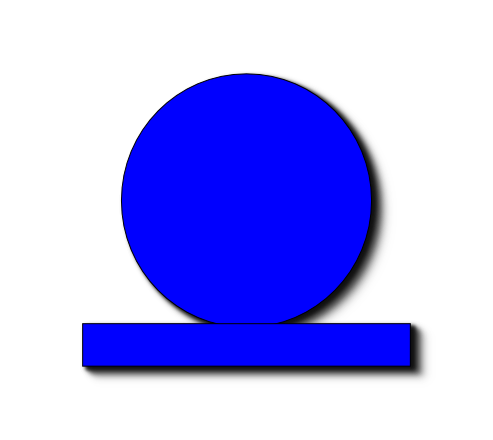 UML Entity Class Icon for graphs